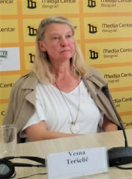 Vesna Teršelič at REKOM press conference. 23 May 2018 (Photo edited from original photography)